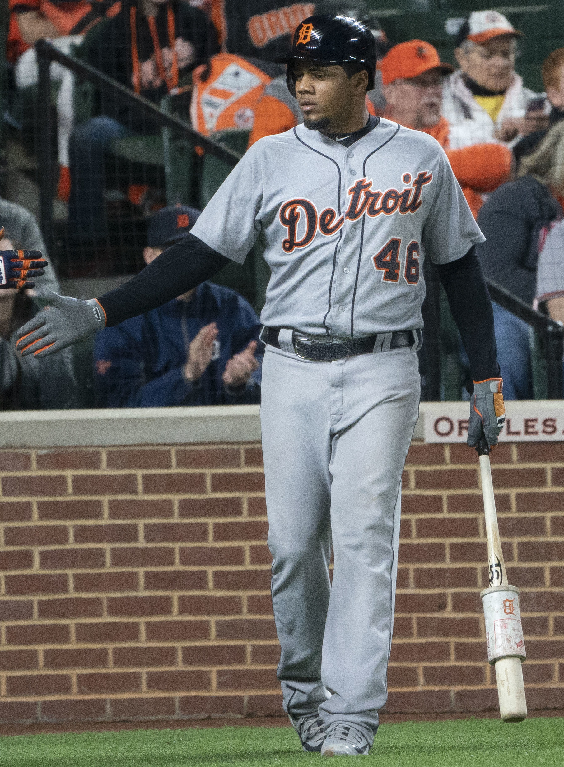 Jose Iglesias and Jeimer Candelario of the Detroit Tigers during a game against the Baltimore Orioles at Camden Yards in Baltimore in 2018